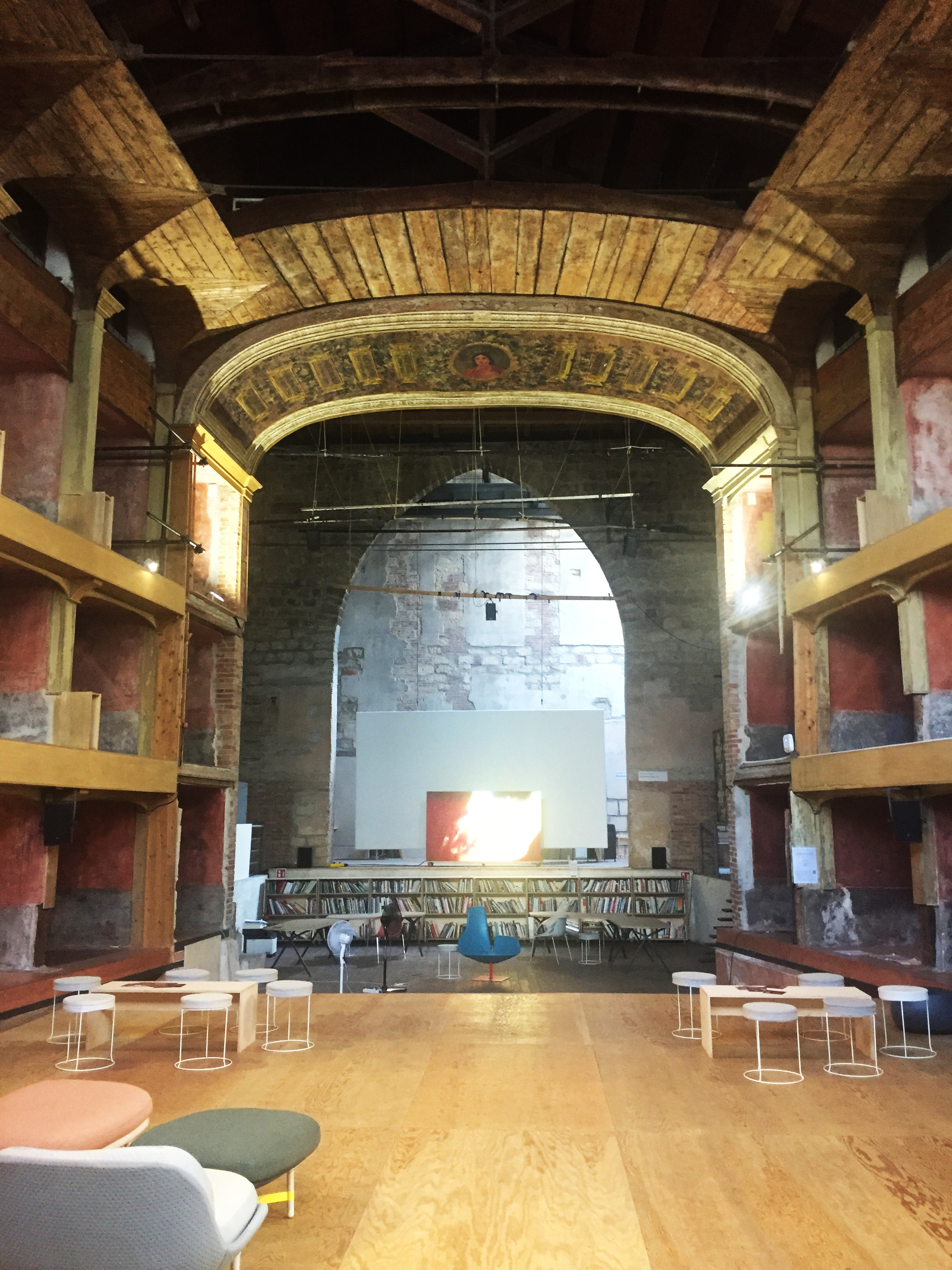 Teatro Garibaldi (Palermo - Italy)